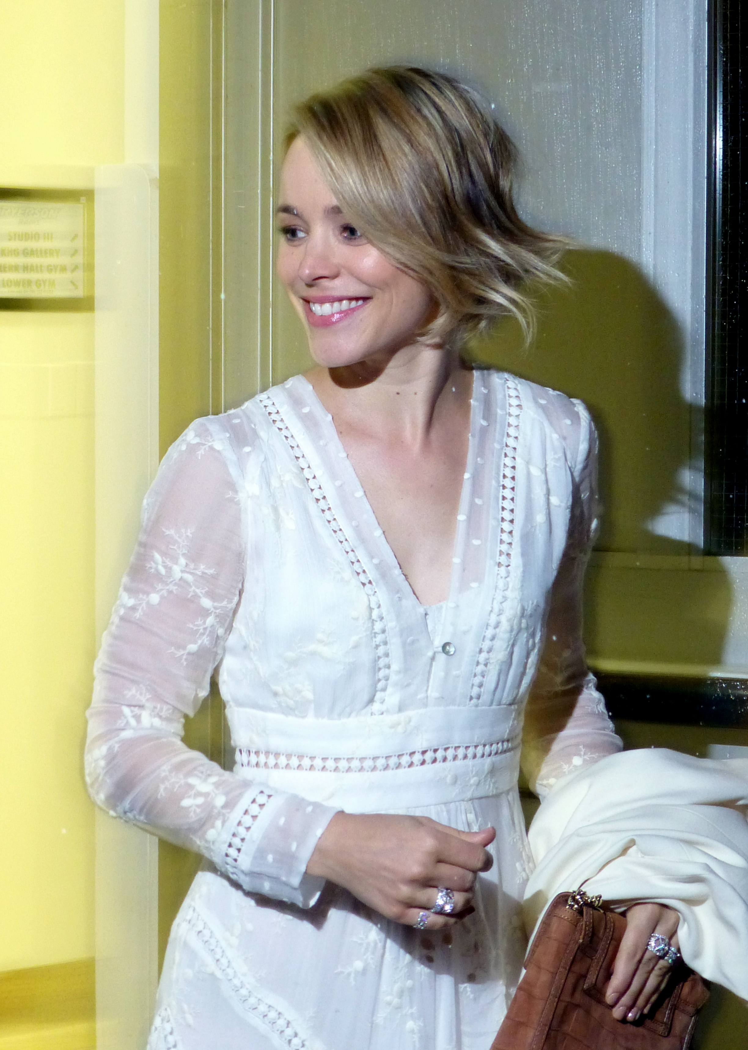 Rachel McAdams at Jason Reitman's live table read of The Princess Bride, 2015 Toronto Film Festival